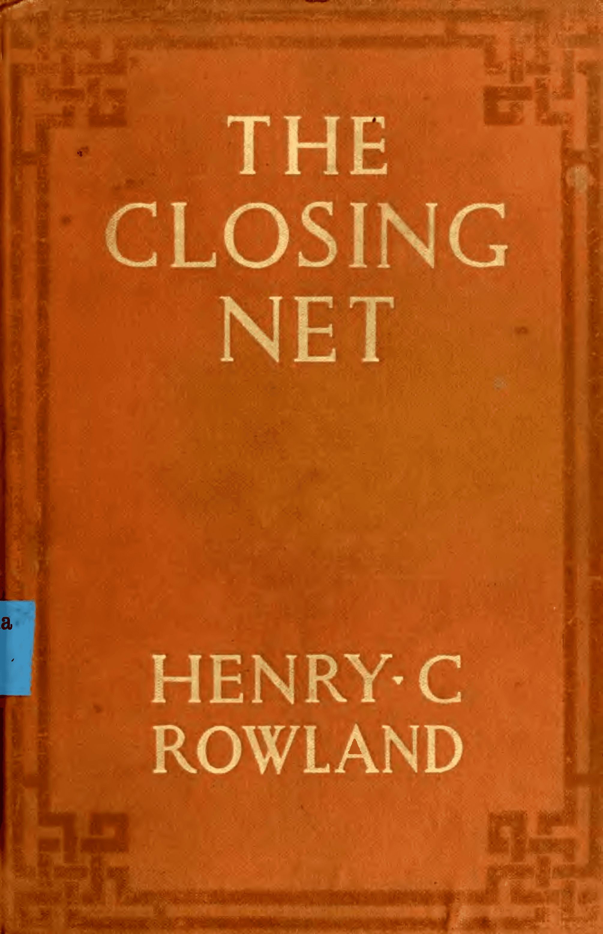 Cover page of scan of the novel "The closing net" (1912) by Henry C. Rowland